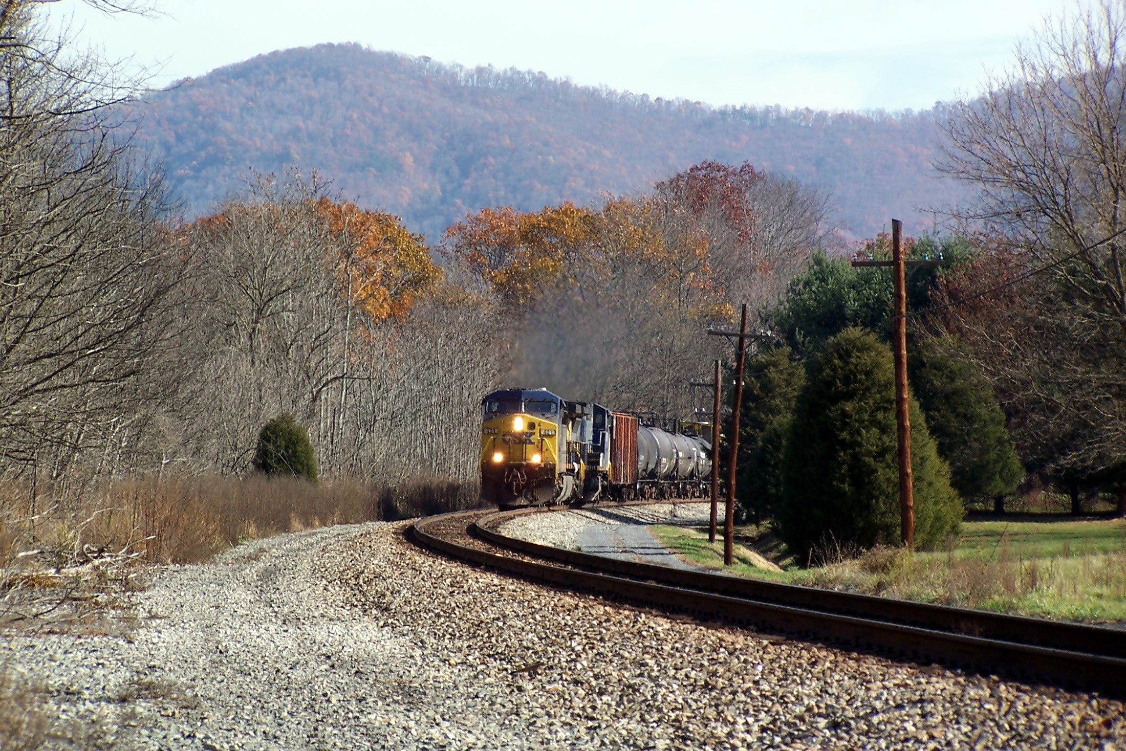 On former C&O trackage, a CSX merchandise freight rounds a curve near Pence Springs, WV.